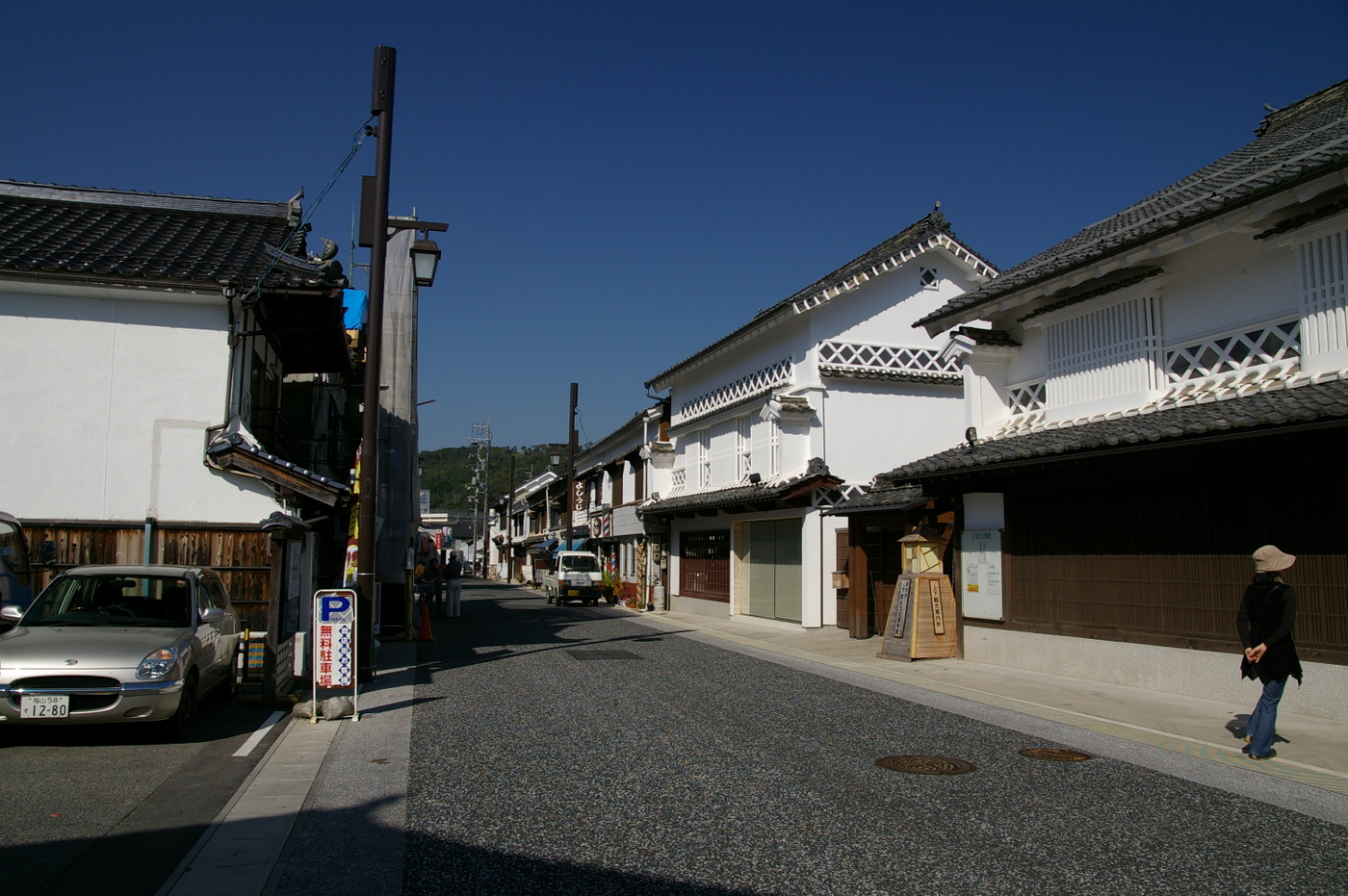 上下町01 Joge town